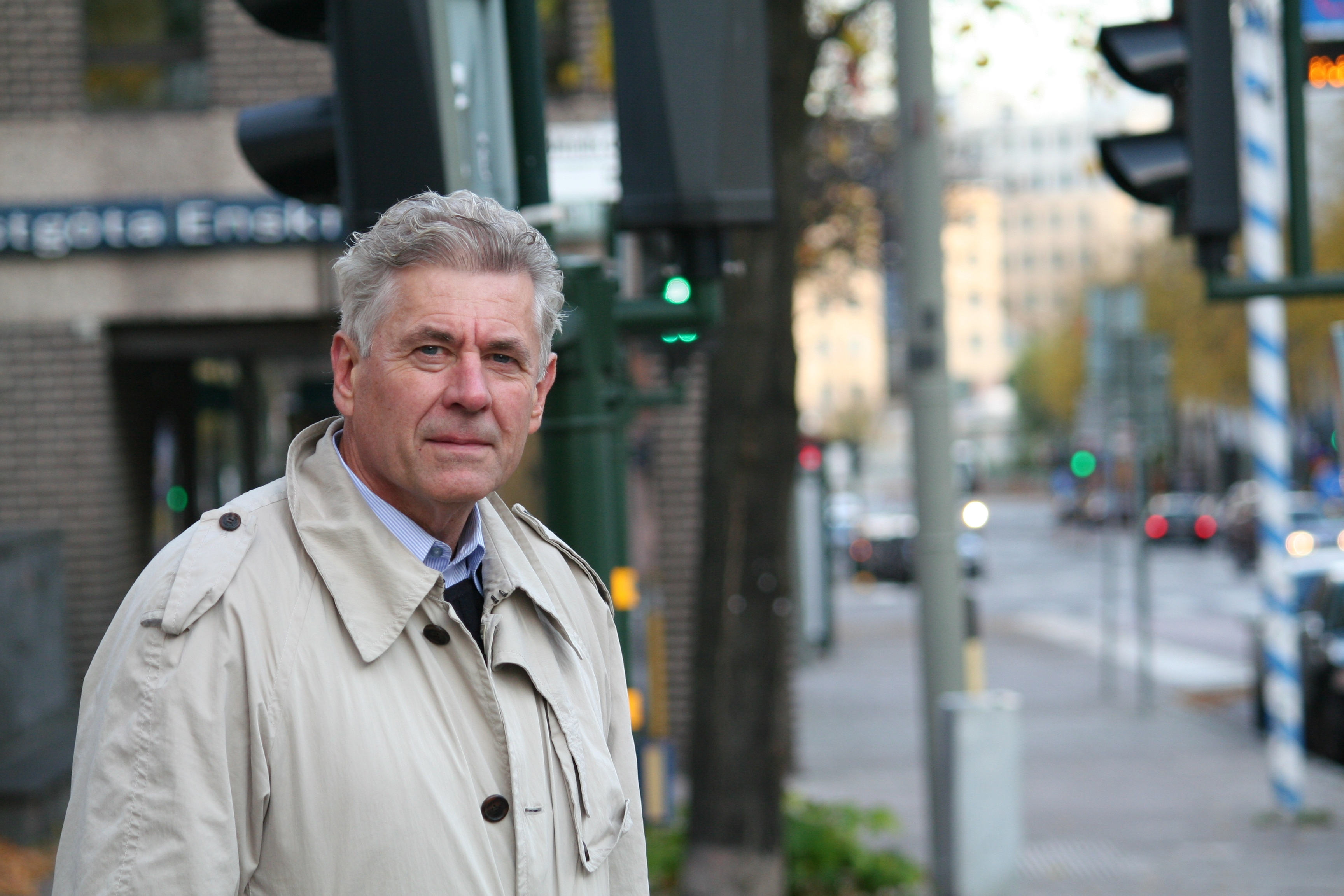 A picture of Claes Fornell.